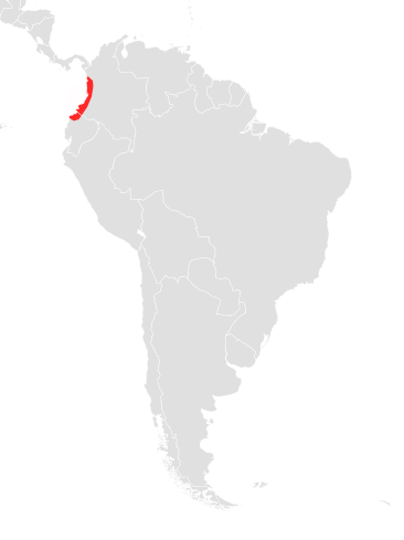 Distribution of Choeroniscus periosus